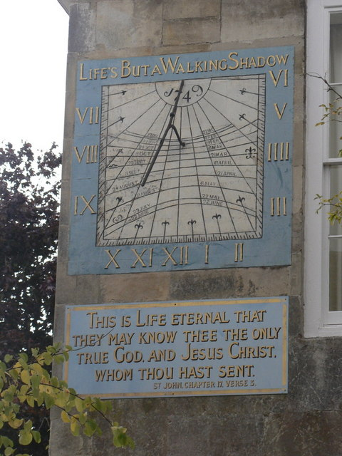 Salisbury: Malmesbury House sundial Just inside the Cathedral Close, at the eastern entrance